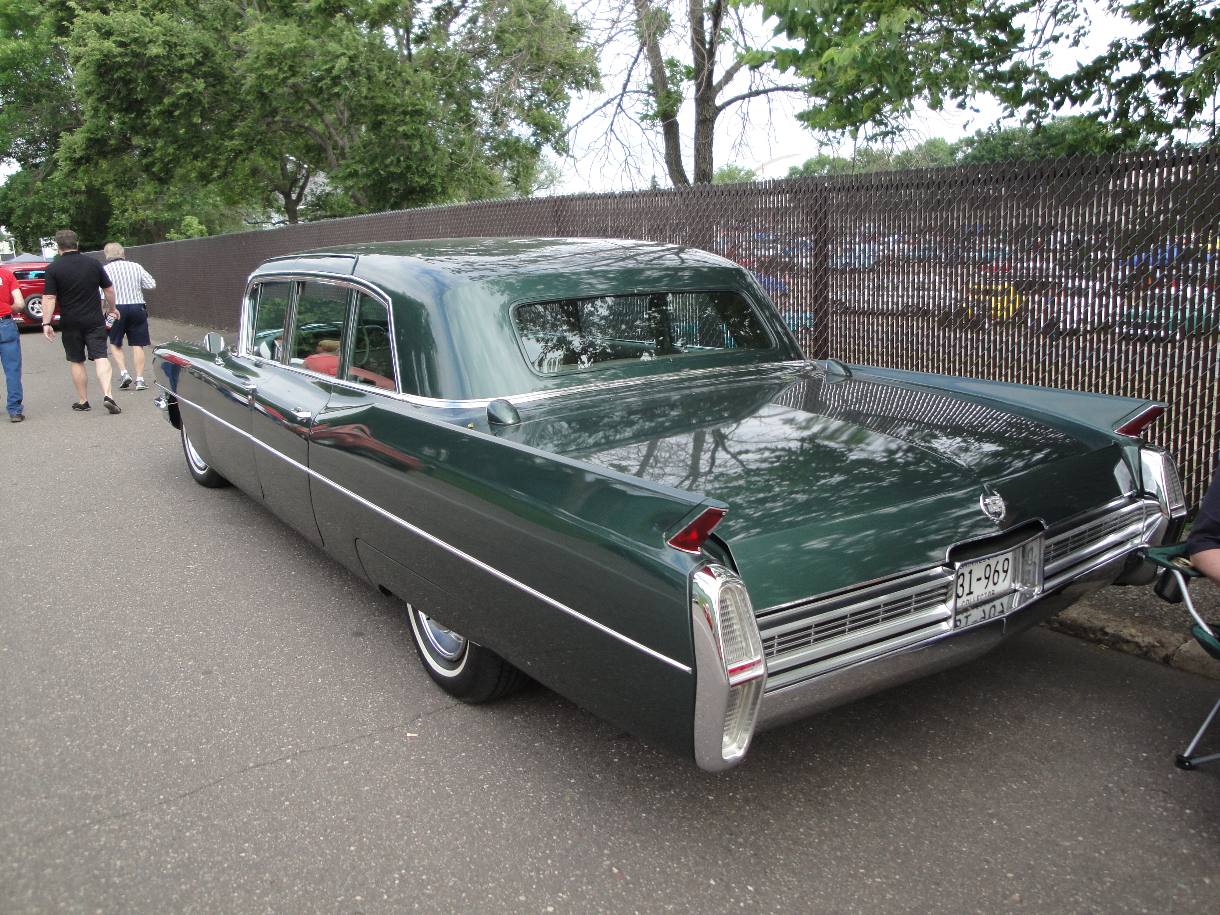 Minnesota Street Rod Association 39th Annual "Back to the Fifties" June 2012 Minnesota State Fairgrounds St. Paul MN